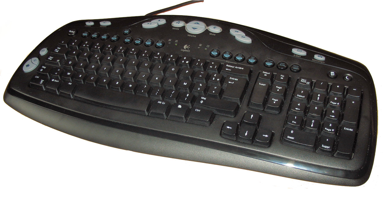 Multimedia keyboard by Logitech